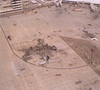 Destroyed aircraft at the Kuwait International Airport during the 1991 Gulf War. The aircraft at left is probably the British Airways Boeing 747-136 G-AWND "City of Leeds". It was blown up by Iraqi forces in Kuwait during the invasion when allied forces intervened on 18 February 1991.